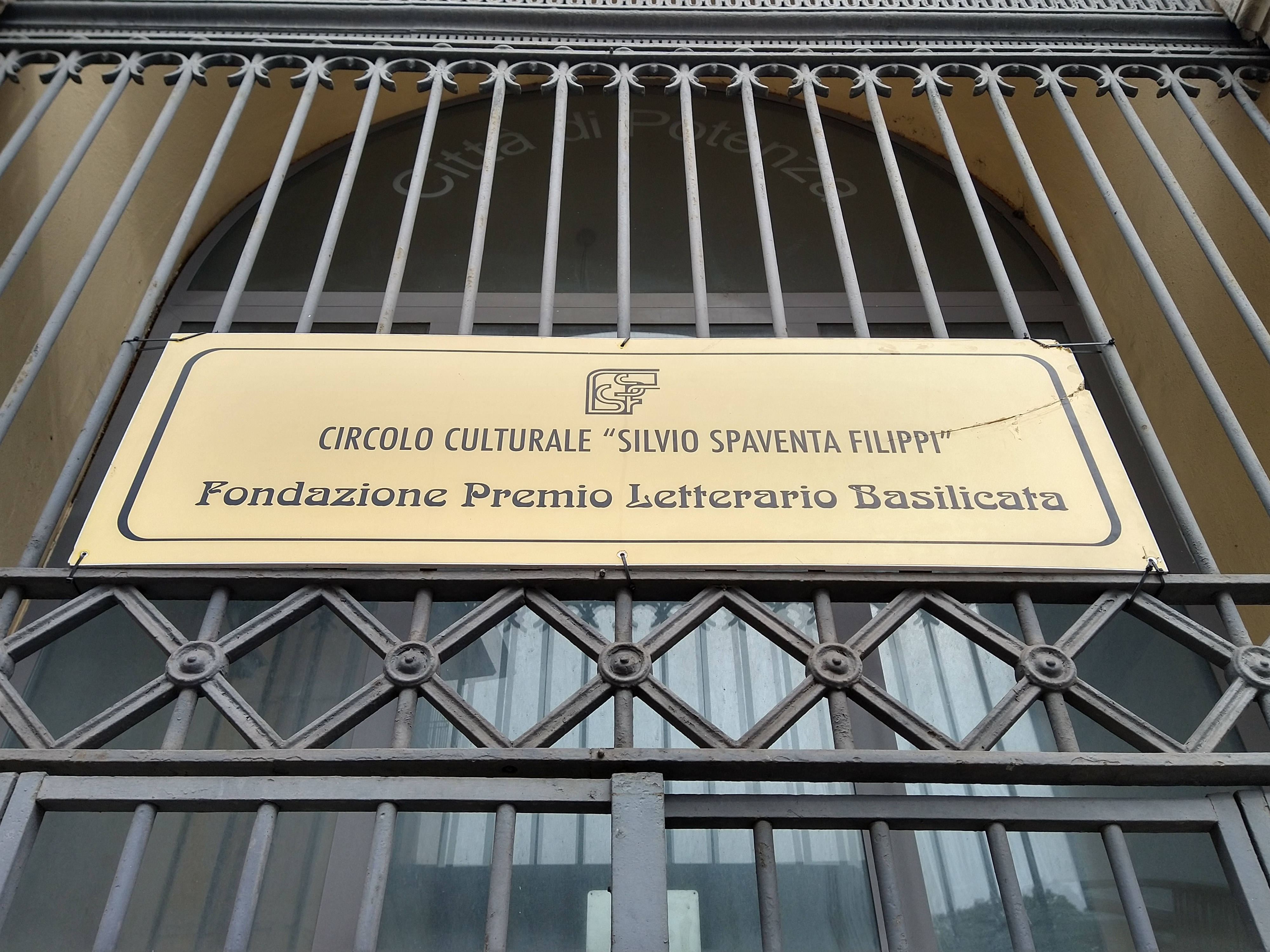 Cultural society "Silvio Spaventa Filippi", Potenza, Italy